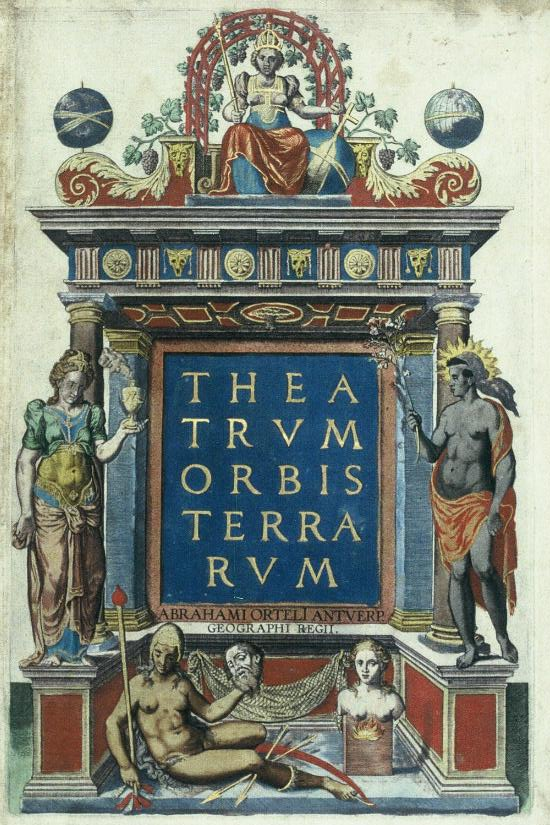 Ortelius title-page for Antwerp Latin edition of 1570, adapted for London 1606 English edition.